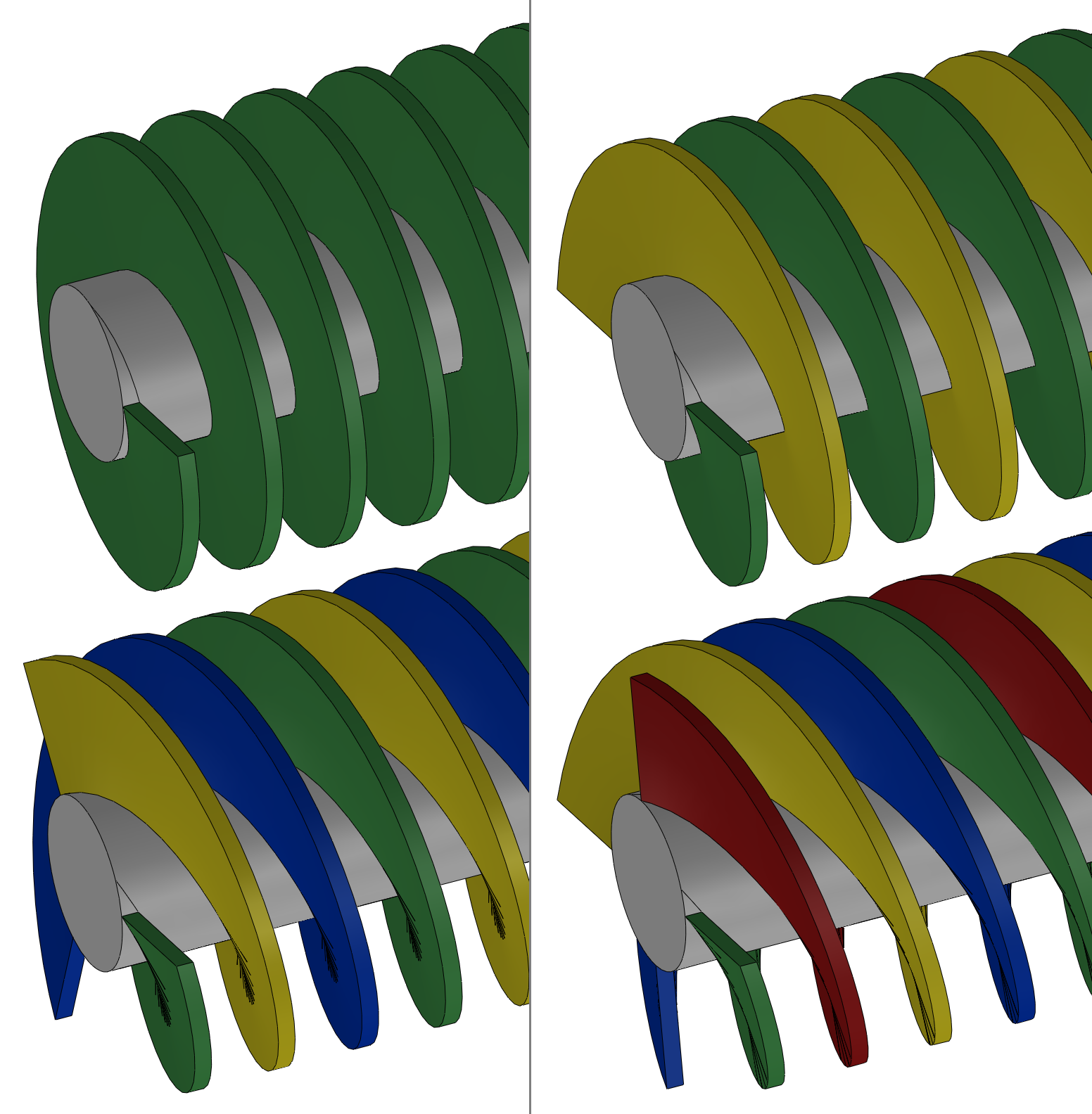 Helical screw with single, double, triple and quadruple start